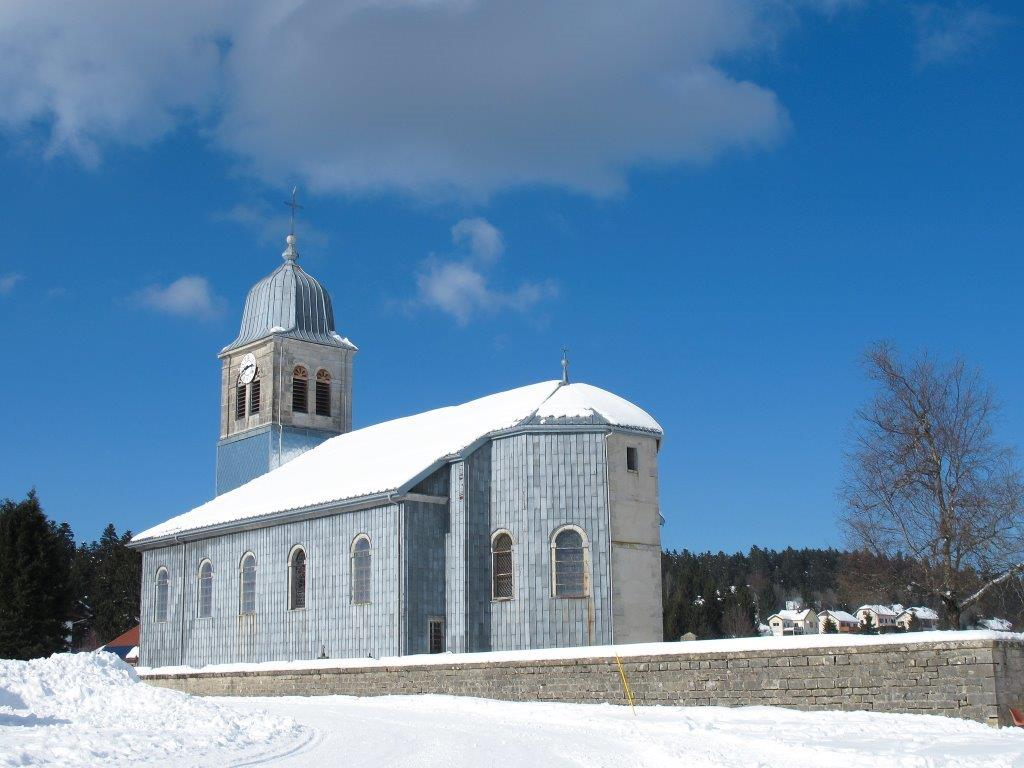 Prénovel church, Jura, France, in winter